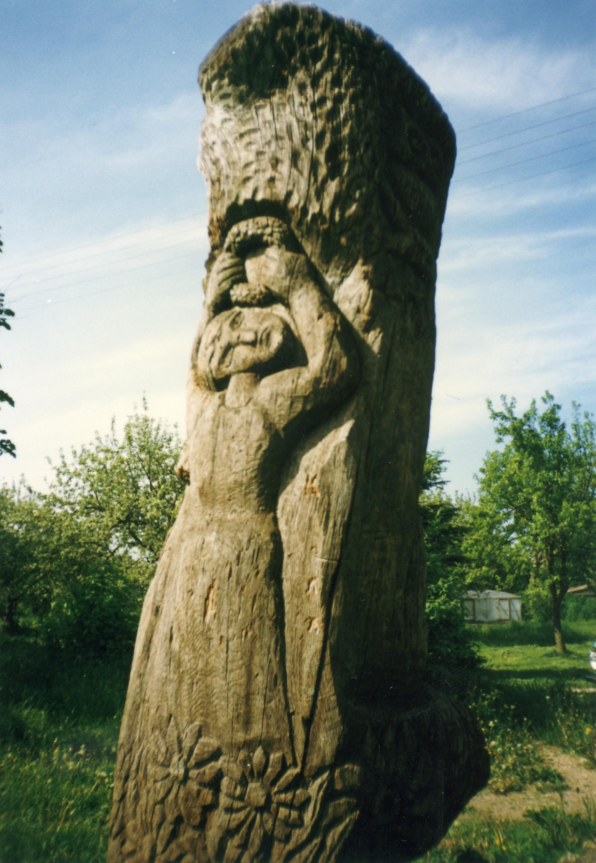 Medžio skulptūra prie J. Basanavičiaus g. 68 namo, M/U gyvenvietė, Jonava (tautodailininkas Andrėjus Kazlauskas). Kitoje skulptūros pusėje - armonika grojantis žmogus.